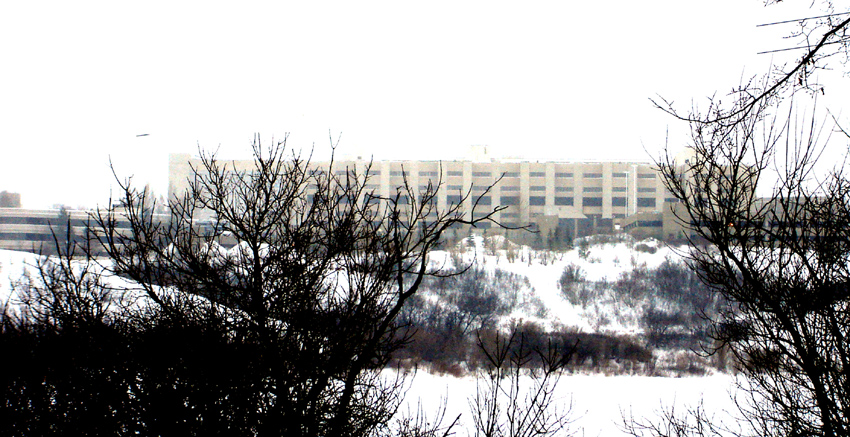 Royal University Hospital, University of Saskatchewan Management Area, University Heights SDA, Saskatoon, Saskatchewan, Canada